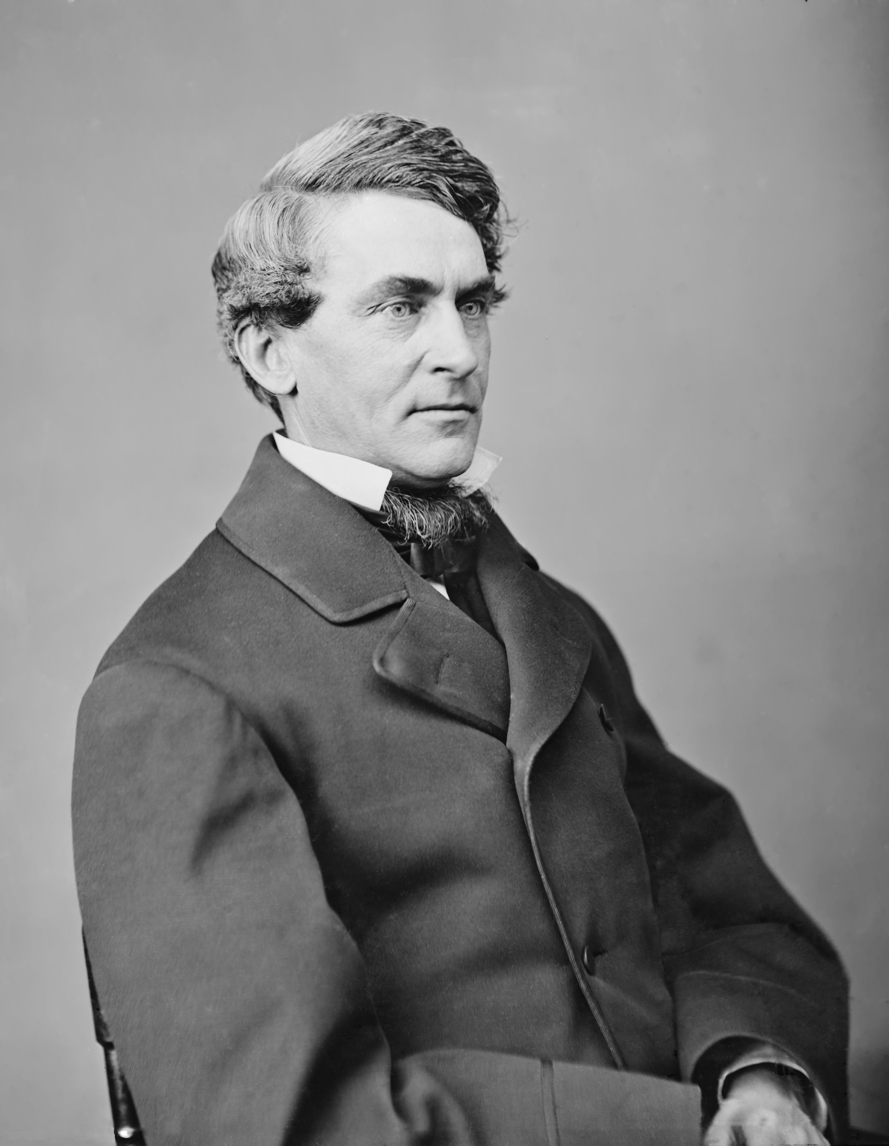 Frederick T. Frelinghuysen. Library of Congress description: "Frelinghuysen, Hon. Frederick Theodore of N.J. Member of the peace convention of 1861 held in Wash. D.C. Sec of State in Pres. Arthur's cabinet"